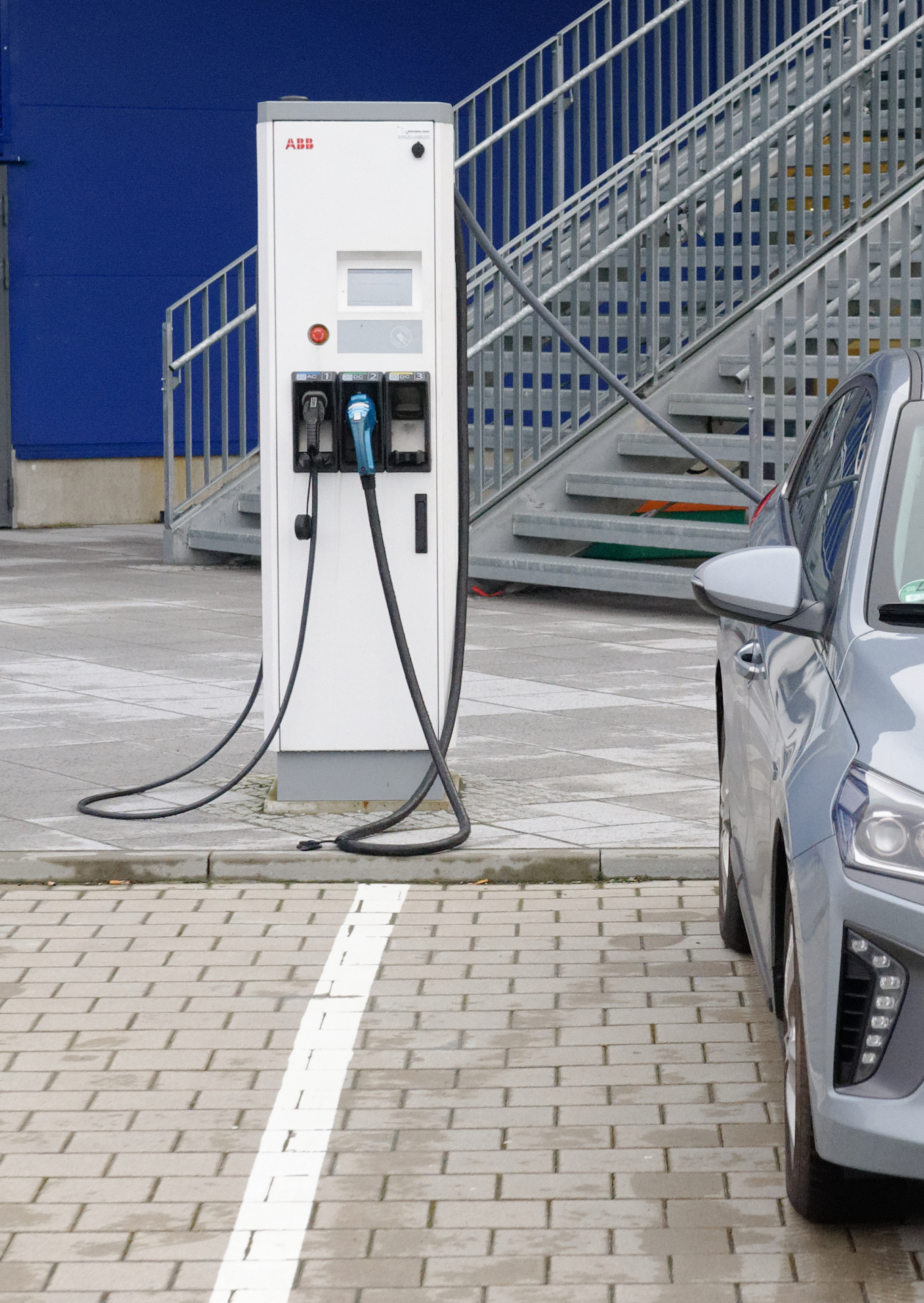 Ikea Ladestation